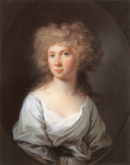 Portrait of Wilhelmine of Prussia, Queen of the Netherlands (1774-1837)